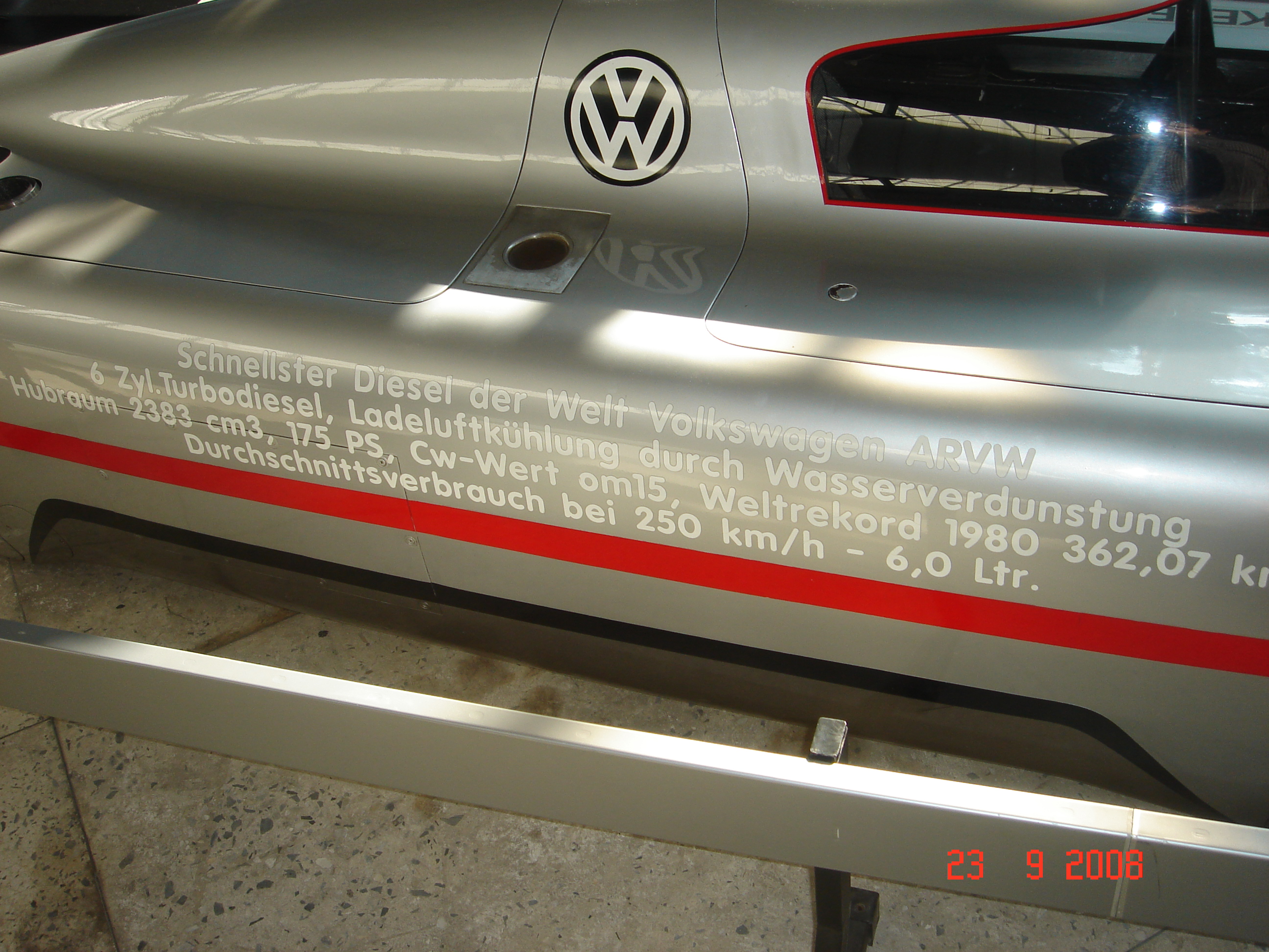 ARVW